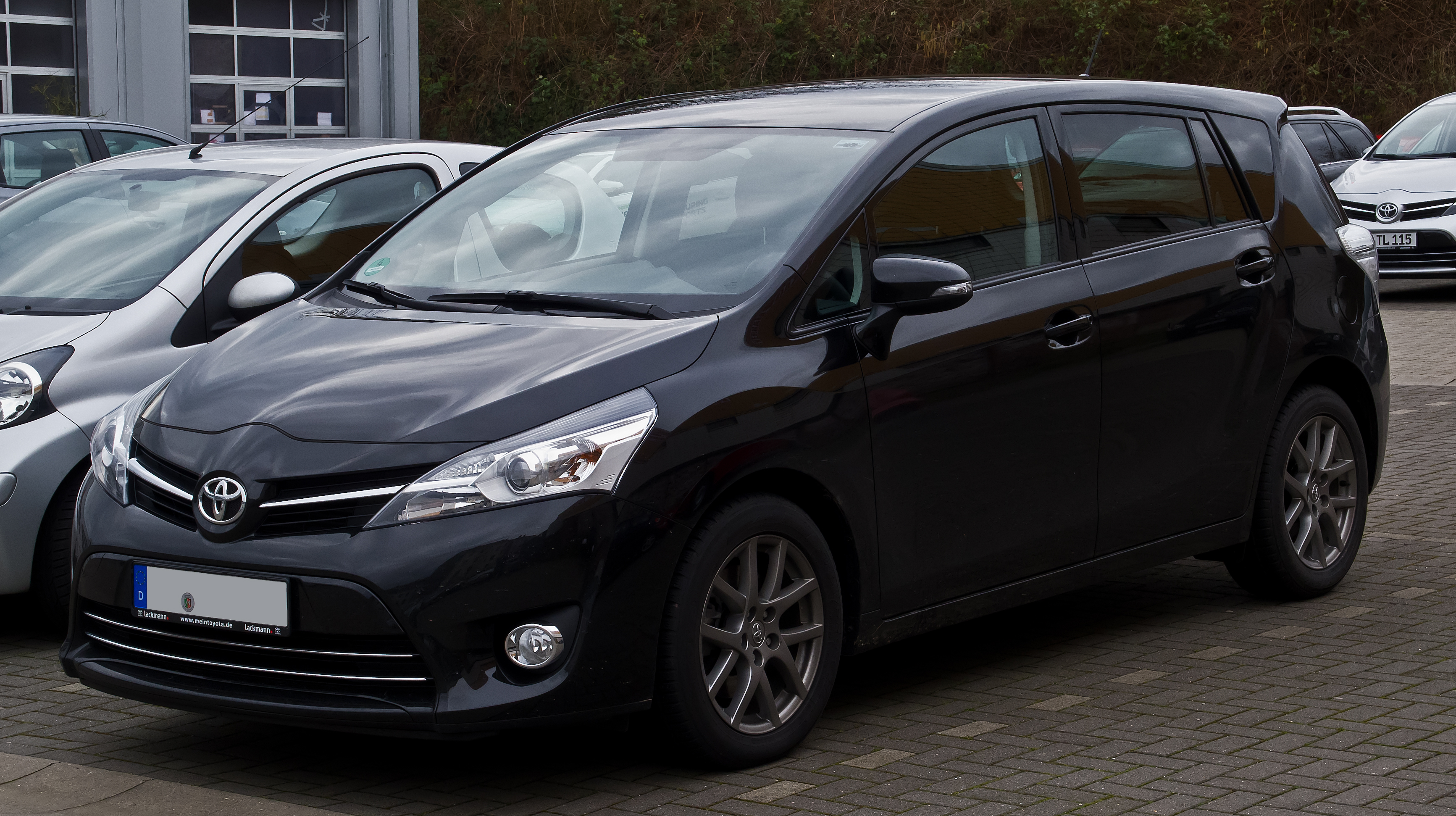 Toyota Verso (Facelift)